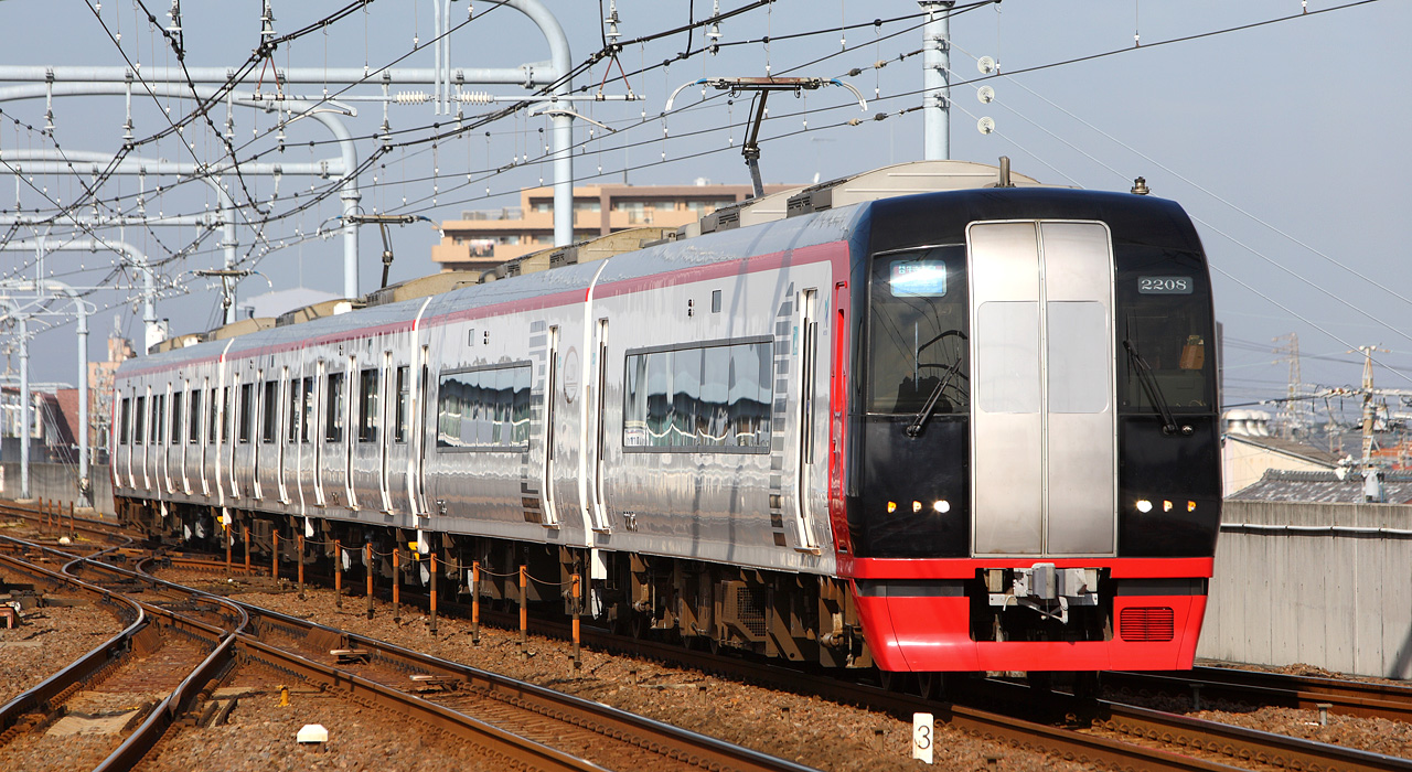 Meitetsu 2200 series EMU set 2208 approaching Tokoname Station